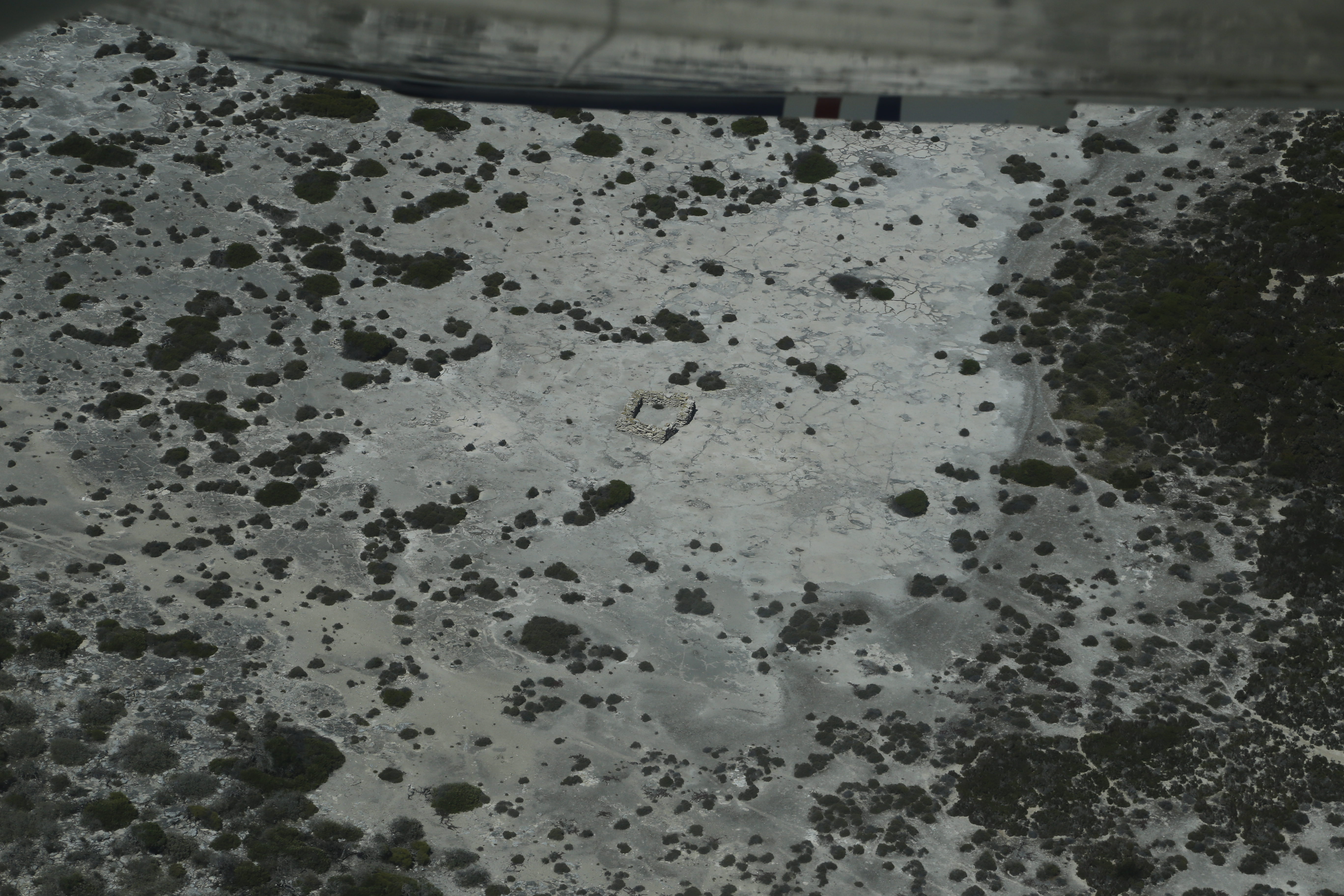 Wiebbe Hayes Fort, West Wallabi Island, WA. Oldest European built structure in Australia.